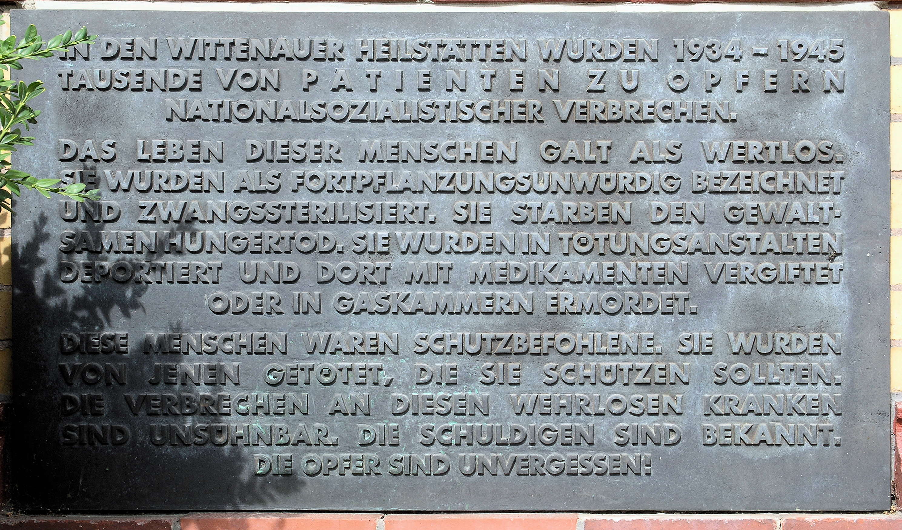 Memorial plaque, Karl-Bonhoeffer-Nervenklinik, Oranienburger Straße 285, Berlin-Wittenau, Germany Koordinate:52°34′44″N 13°19′58″E / 52.57889°N 13.33278°E